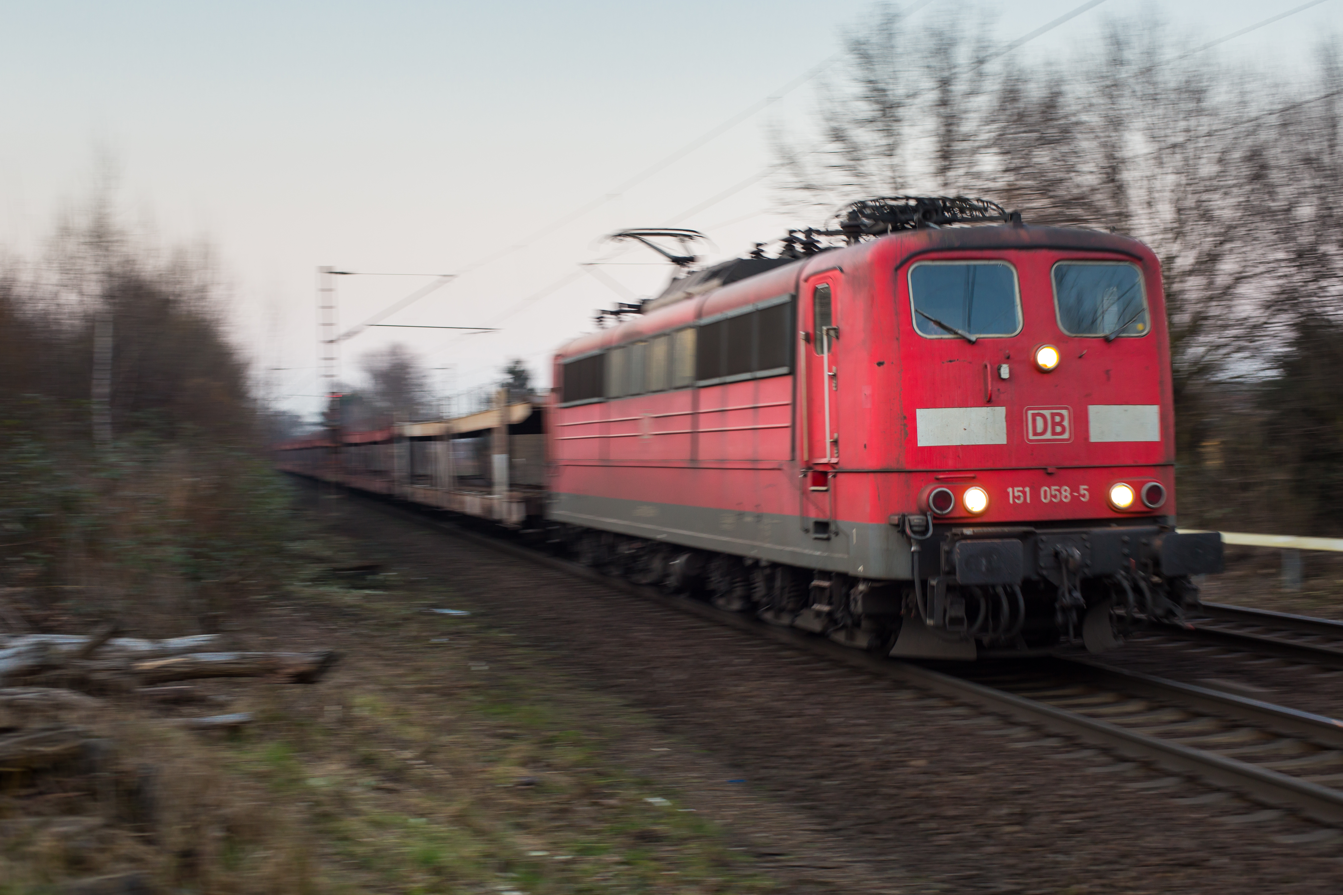 Electric locomotive class 151 operated by Deutsche Bahn AG, seen here at freight train bypass in Limmer quarter of Hannover, Germany.